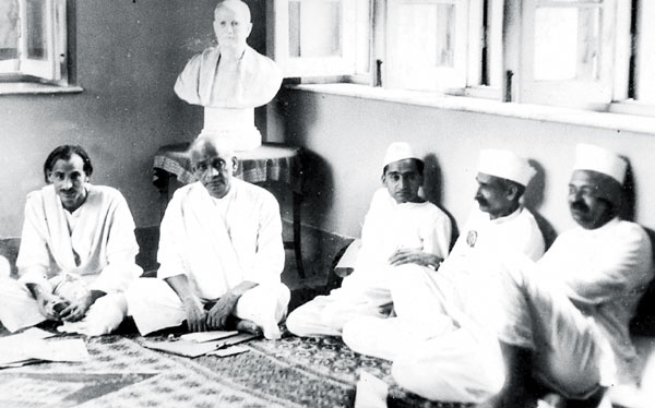 India Congress Working Commitee Meeting at Sarat Ch Bose Hosue (brother of Subhash Ch. Bose) From Left J B Kripallini, Ballavbhai patel, Achyuddhya Pattabardhan, Narendra Deb, Gobindaballav Panth